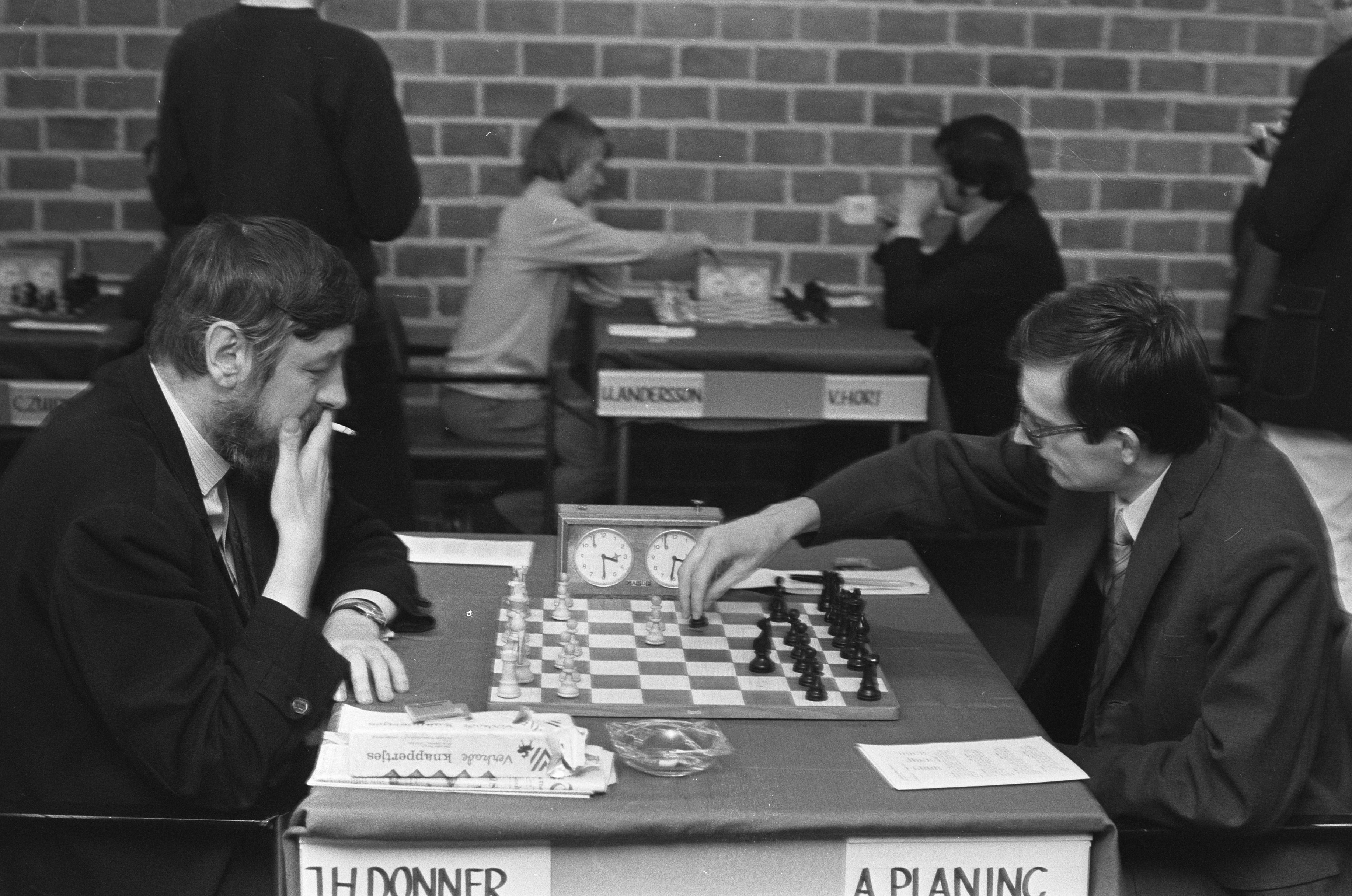 Albin Planinc vs. Jan Hein Donner at Wijk aan Zee